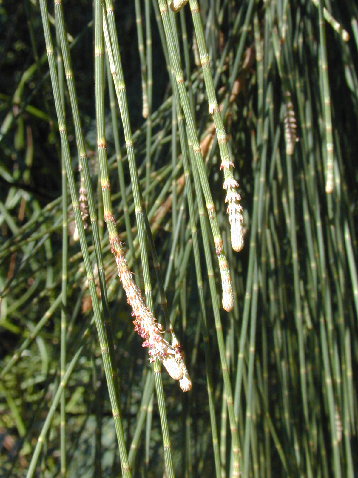 Close-up of branches/leaves of Casuarina equisetifolia taken in Hawaii